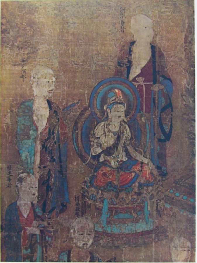 kenpon chakushoku kusha mandara zu, left detail, color on silk, hanging scroll, total size: 164.5 cm × 177.0 cm (64.8 in × 69.7 in), ACE 10th century, Tōdai-ji, Nara, Japan